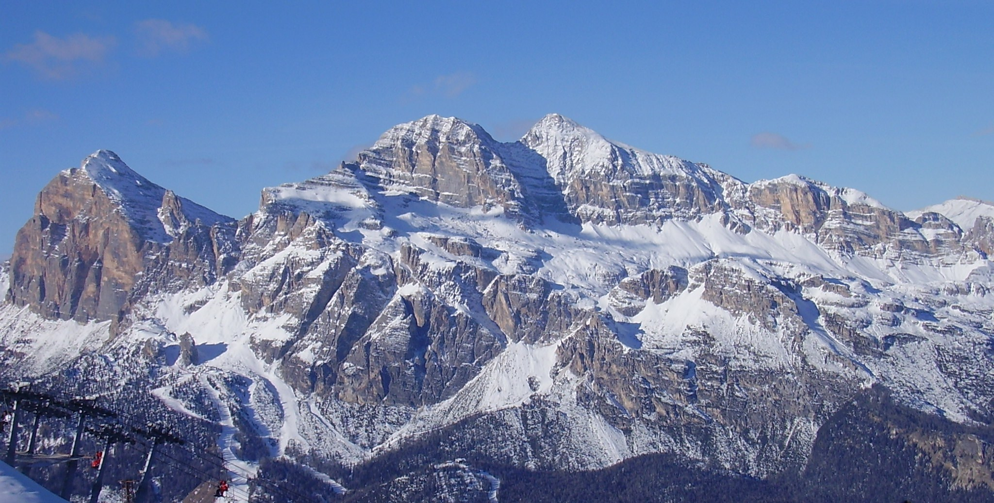 The Tofane massif in the Dolomites, in Cortina d'Ampezzo, Italy.